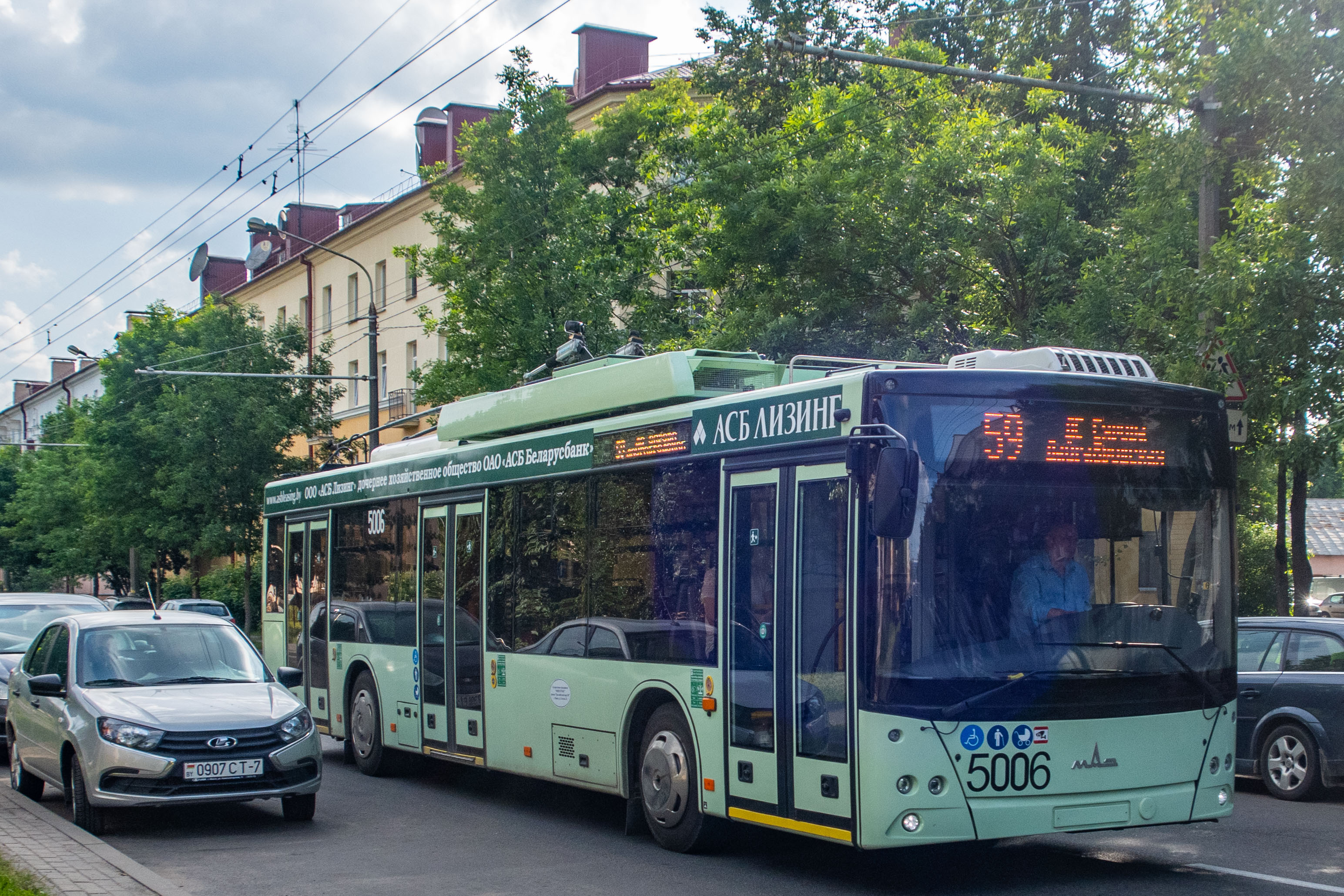 MAZ-203T trolleybus. Minsk, Belarus